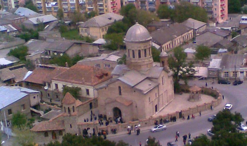 A cathedral in Gori, Georgia. View from the Gori Fortress